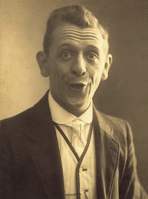 Photograph of Swiss clown "Grock" in 1903